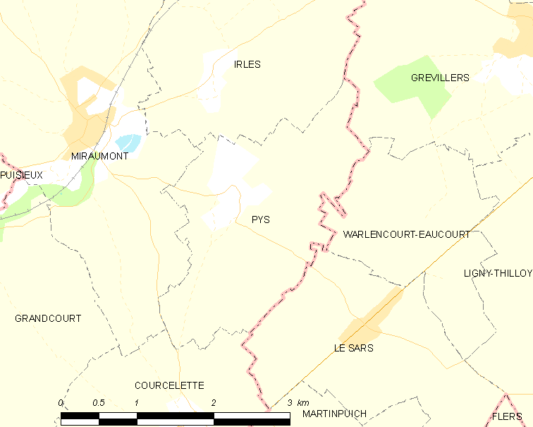 Map of French municipality Pys